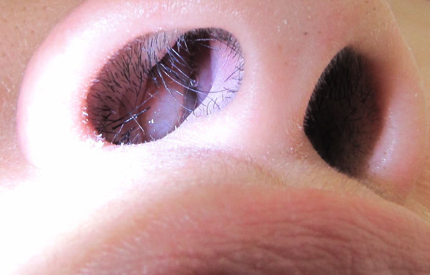 Nasal polyp in right nostril.